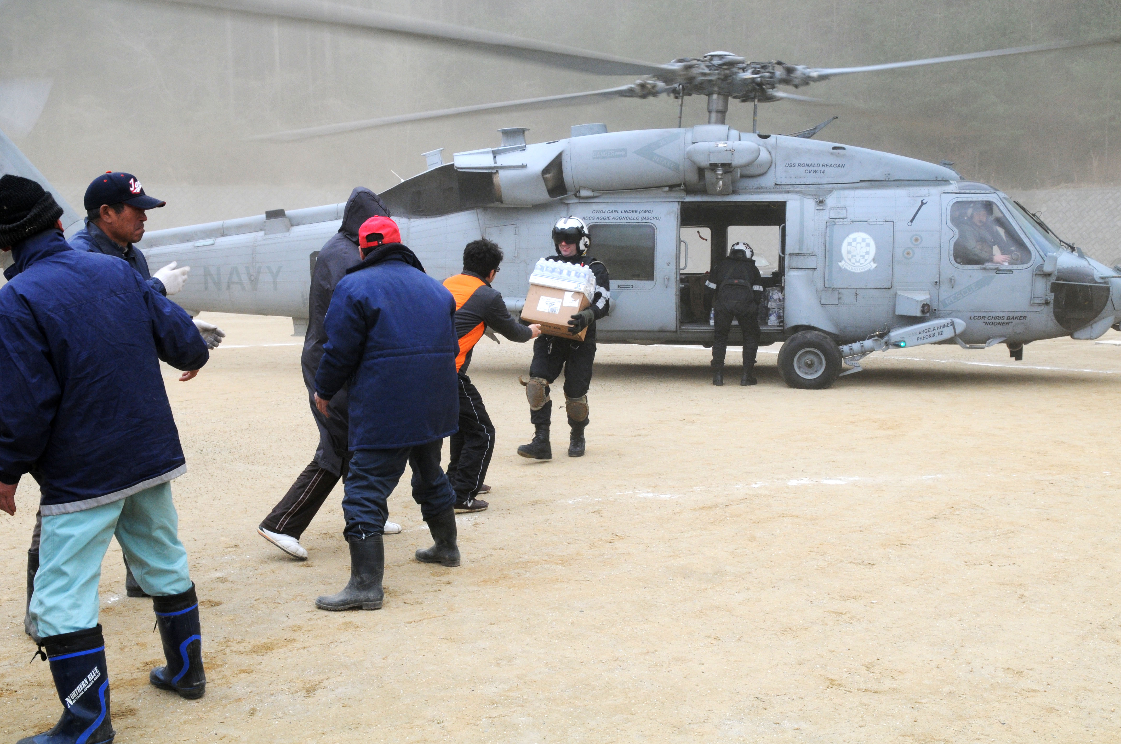 WAKUYA, Japan (March 15, 2011) Naval Air Crewman 2nd Class Zack DelCorte, assigned to the Black Knights of Helicopter Anti-Submarine Squadron (HS) 4 embarked aboard the aircraft carrier USS Ronald Reagan (CVN 76), hands bottled water to a Japanese citizen. Ships and aircraft from the Ronald Reagan Carrier Strike Group are conducting search and rescue operations and re-supply missions as directed in support of Operation Tomodachi throughout northern Japan. (U.S. Navy photo by Mass Communication Specialist 3rd Class Kevin B. Gray/Released)